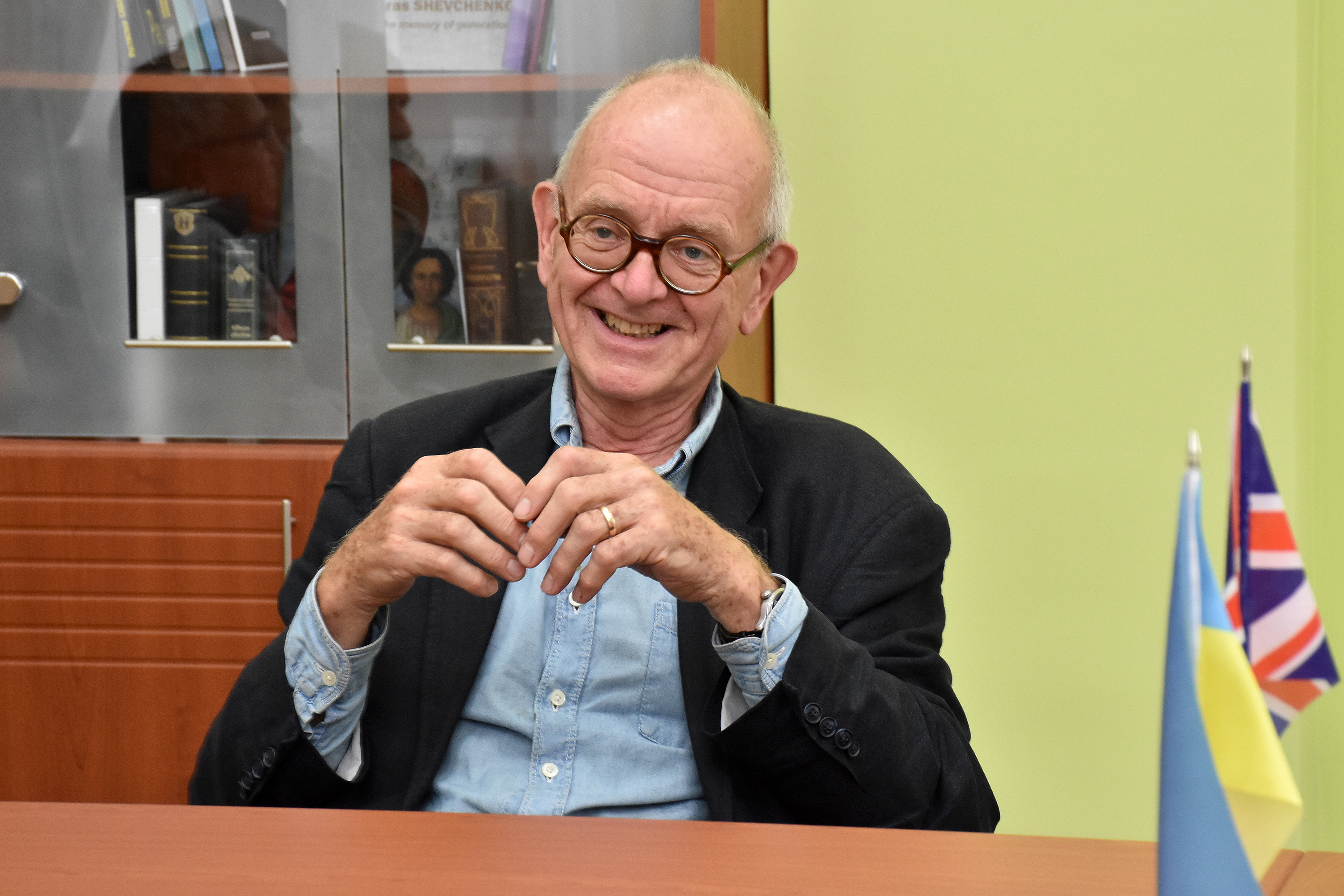 Leading British neurosurgeon, and a pioneer of neurosurgical advances in Ukraine Henry Marsh with visit to TSMU September 21, 2016.